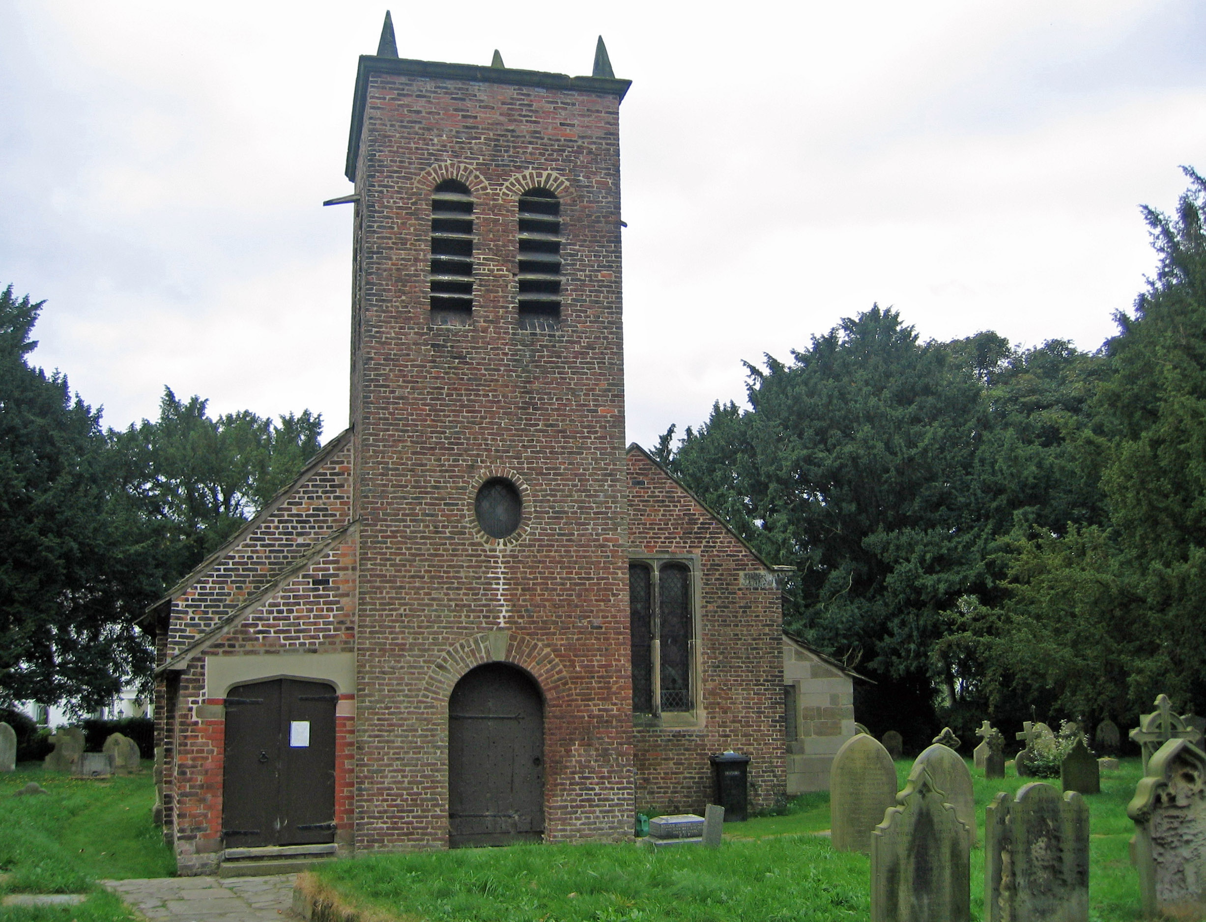 Old church of St Werburg, Wigsey Lane, Warburton, Greater Manchester, seen from the east